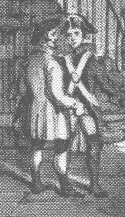 Detail from a lithograph by W and A K Johnston, 1852